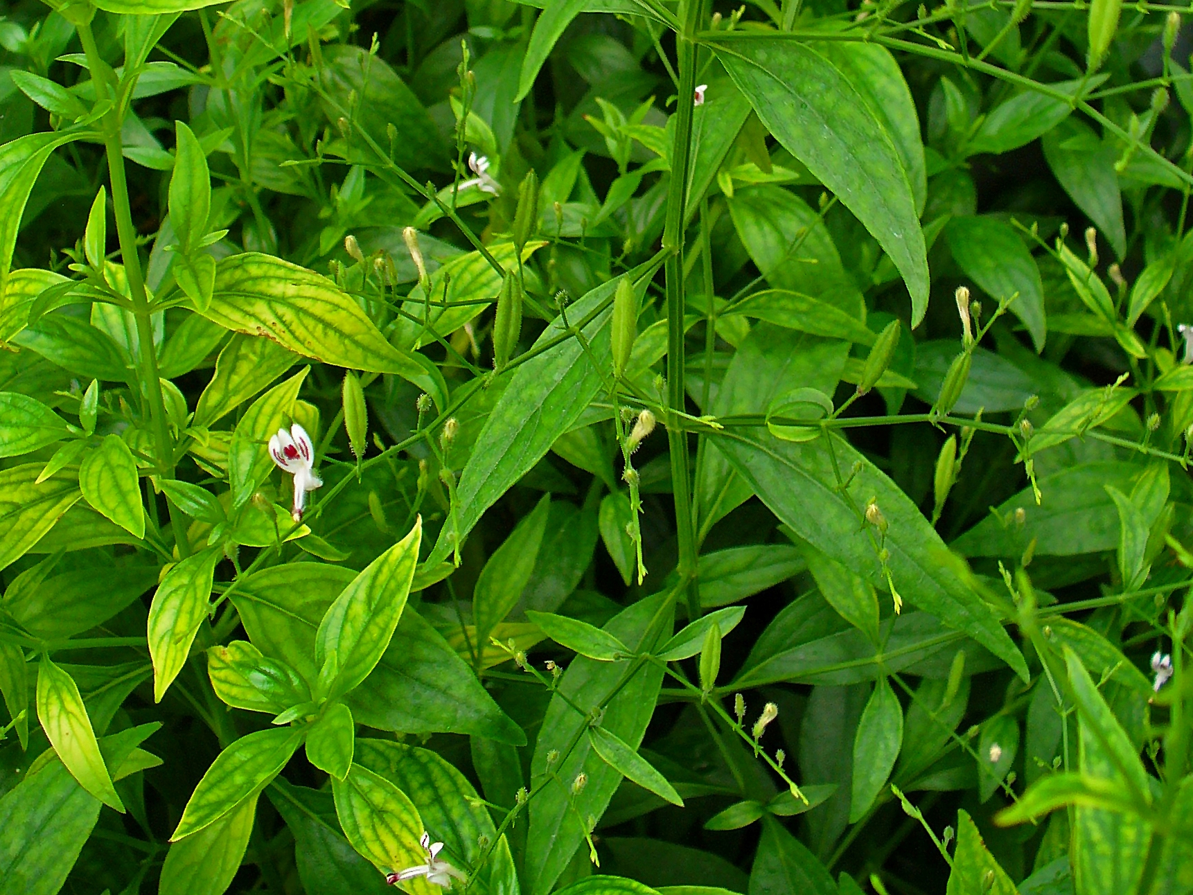 Andrographis paniculata, Acanthaceae, Green Chirayta, Creat, King of Bitters, India Echinacea, habitus; Botanical Garden KIT, Karlsruhe, Germany. The plant is used in homeopathy as remedy: Andrographis paniculata (Androg.)